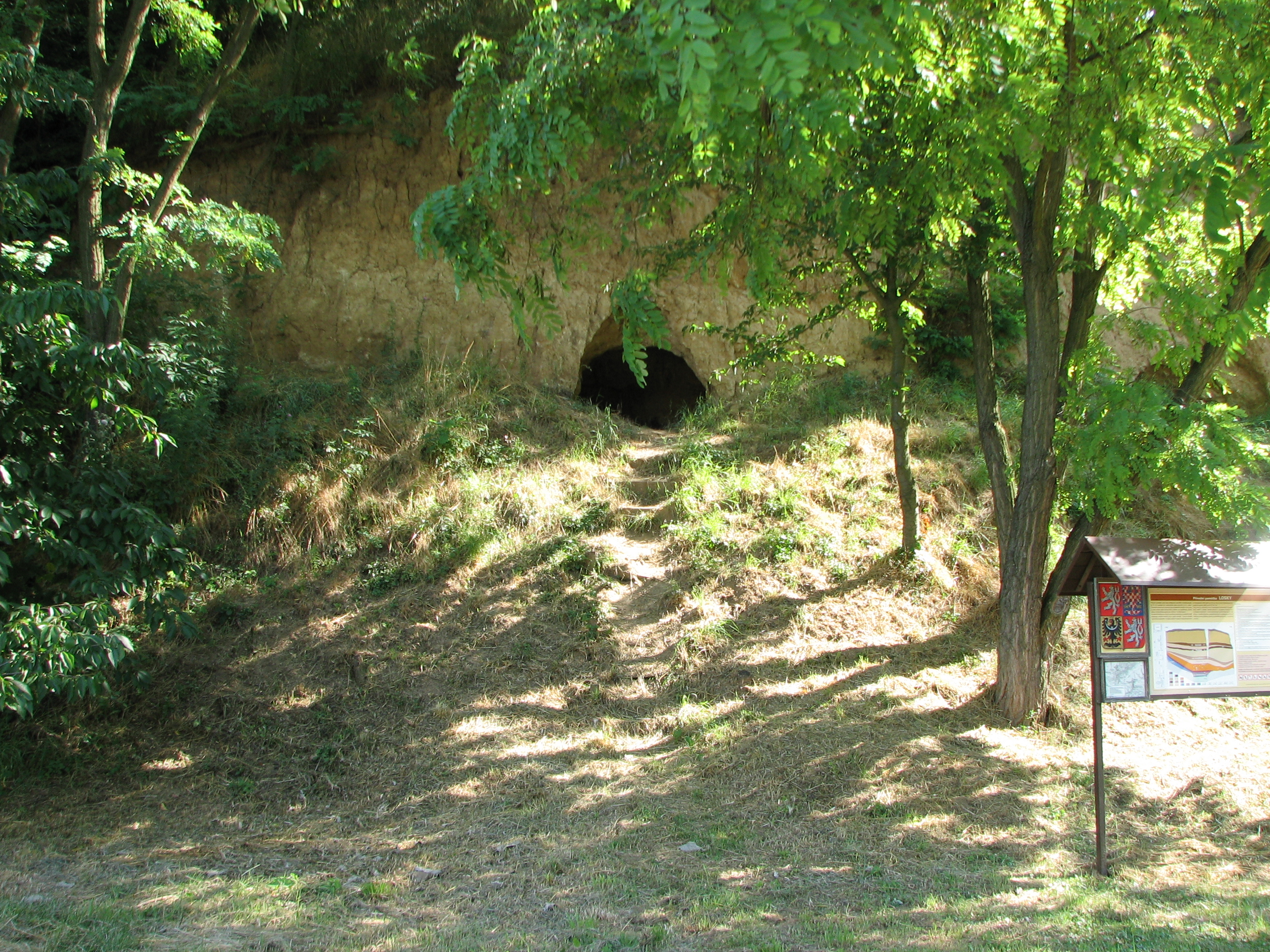 Ježov - Losky natural monument